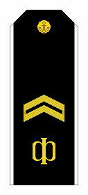 Rank insignia of the Russian Federation´s armed forces (1994-2010), here Sea war fleet (Navy) "Petty Officer 2'nd Class” (OR4) – shoulder strap dress uniform.